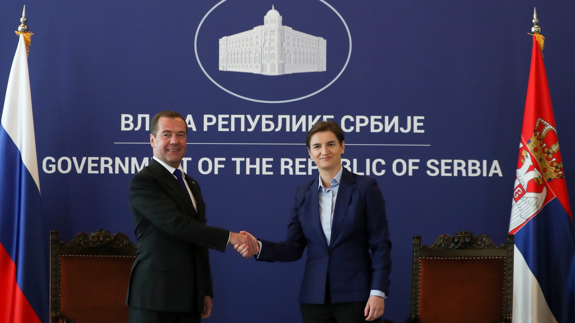 Russian and Serbian Prime Ministers Dmitry Medvedev and Ana Brnabić